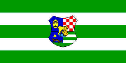 Zagreb County